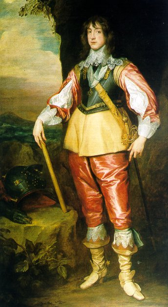 Portrait of Charles Louis Elector Palatine